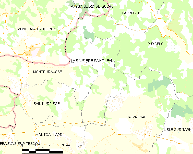 Map of French municipality La Sauzière-Saint-Jean